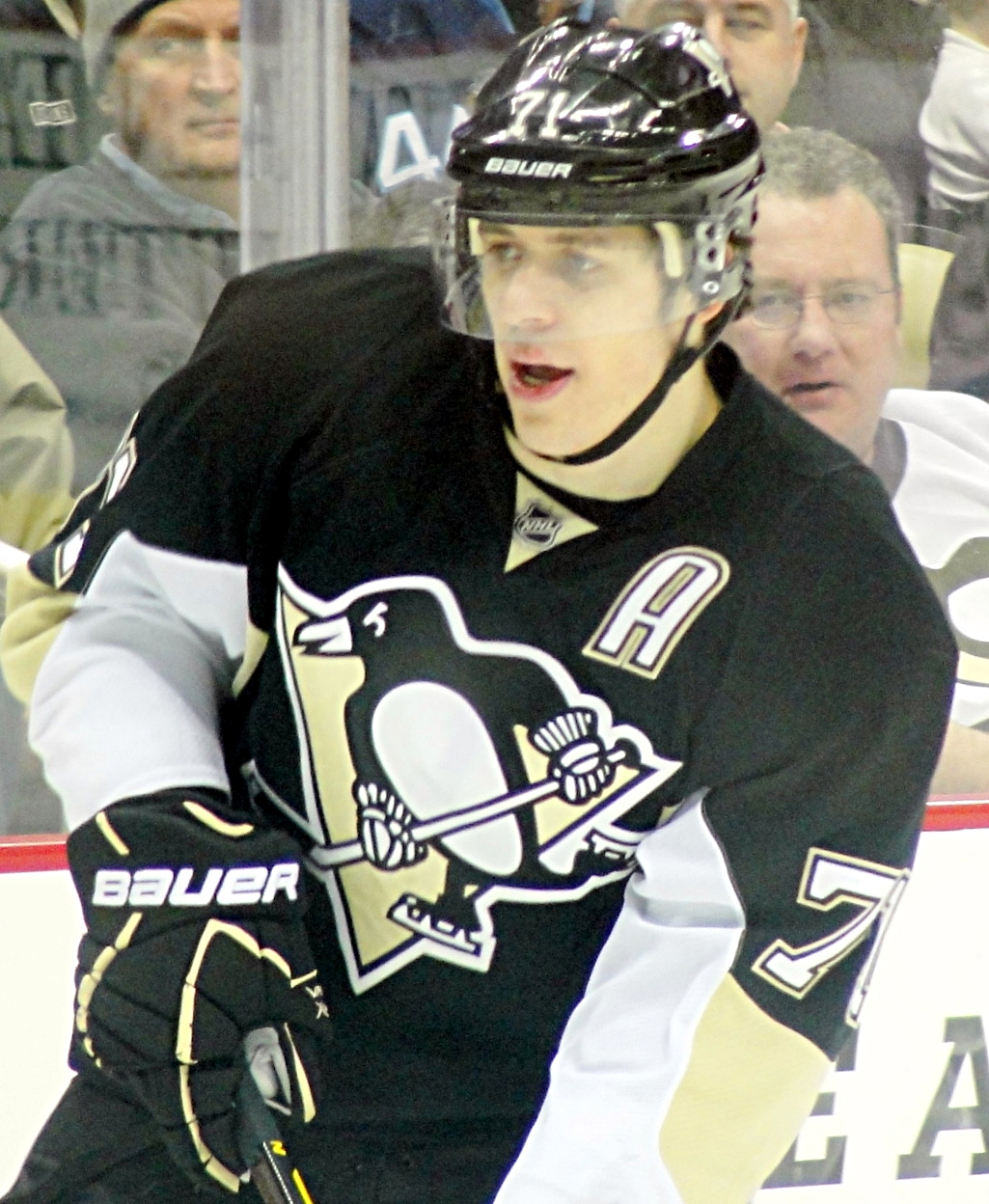 Pittsburgh Penguins center Evgeni Malkin skates against the Anaheim Ducks in a February 15, 2012 game at Consol Energy Center in Pittsburgh, PA.